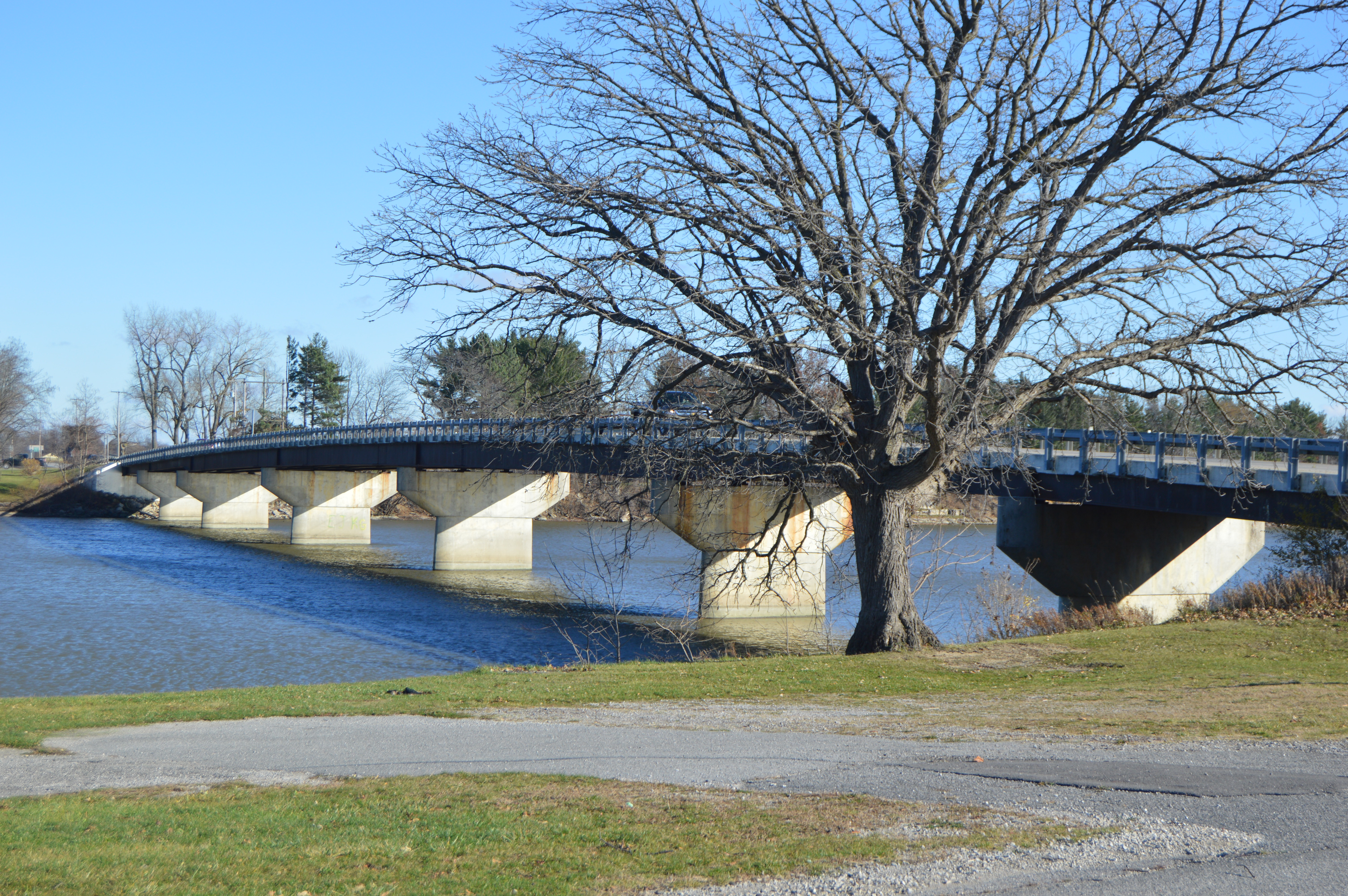 Northern (downstream) side of the bridge that carries State Route 637 over the Auglaize River east of Junction in Auglaize Township, Paulding County, Ohio, United States.